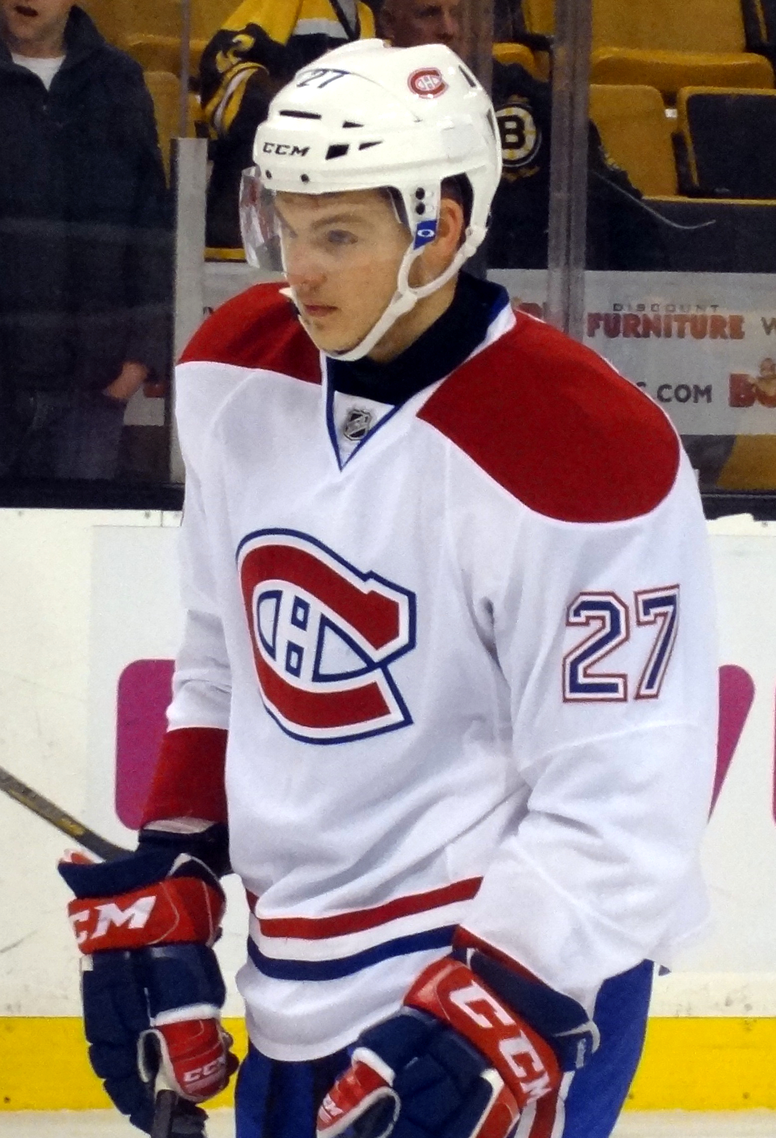 A picture of Alex Galchenyuk I took at warm-ups prior to the Boston Bruins vs Montreal Canadiens on 03 March 13.